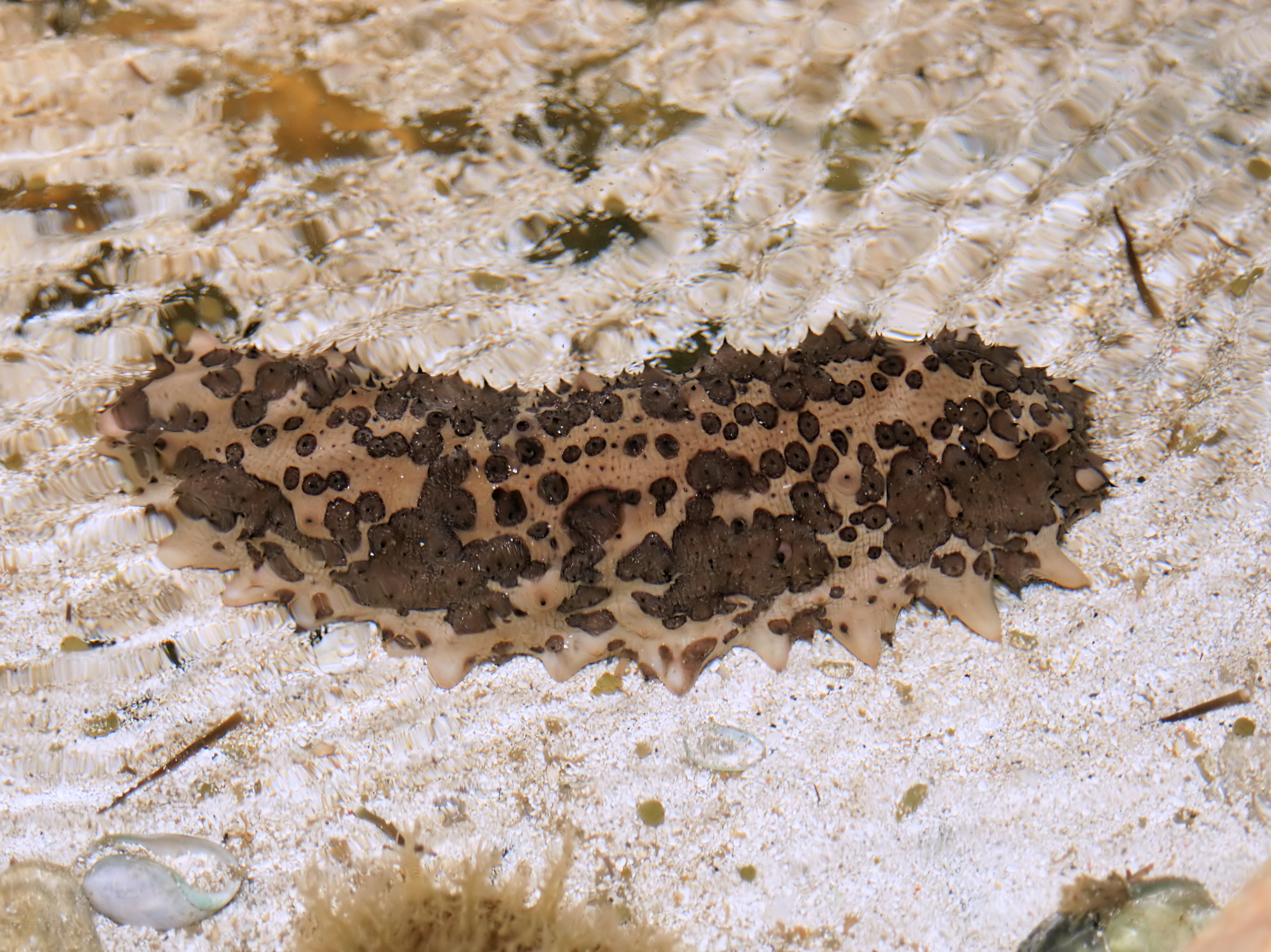 Chocolate Chip Sea Cucumber at St. Lucie County Marine Center in Fort Pierce, St. Lucie County, Florida, U.S.A.